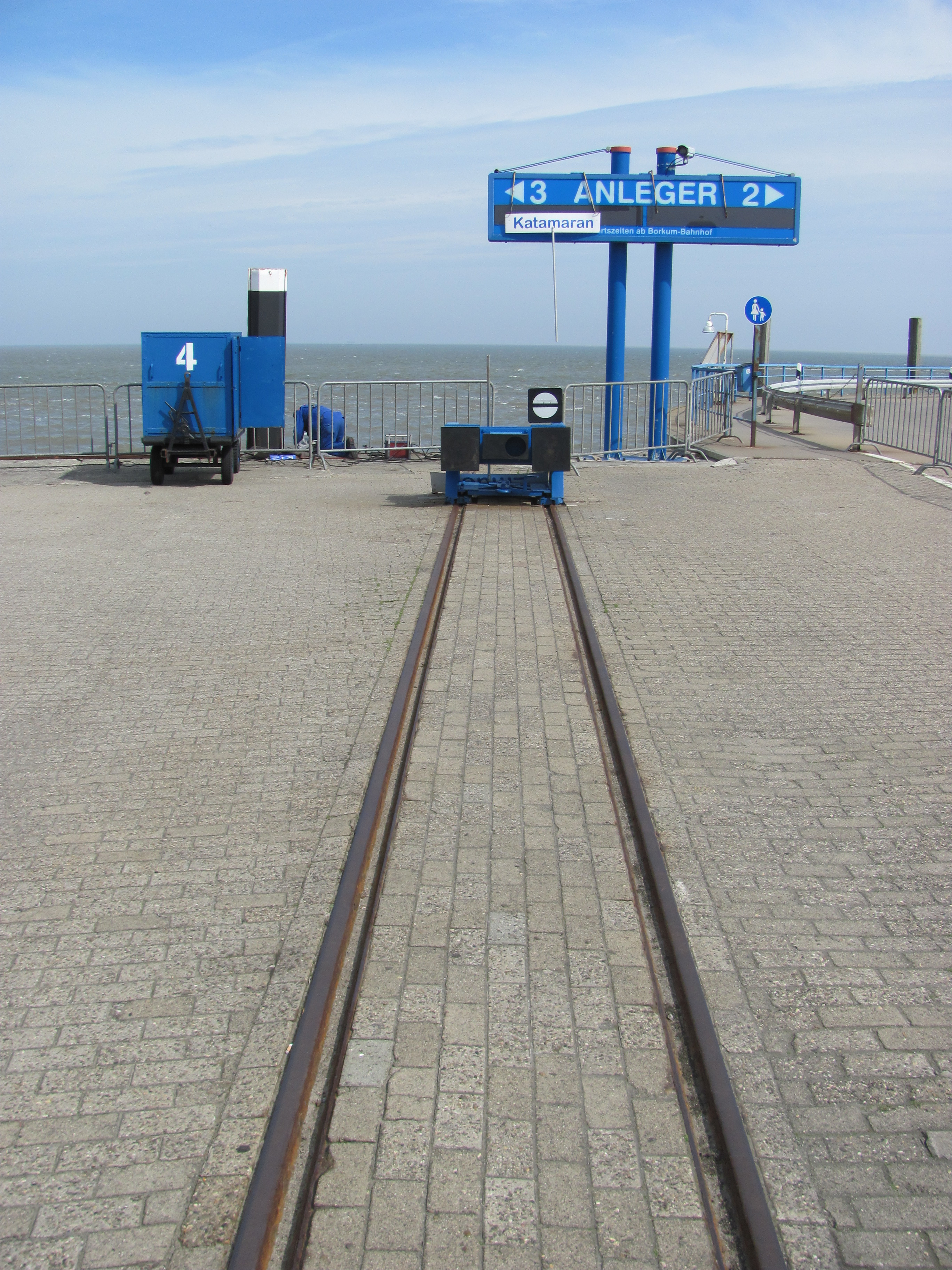 BKB end of line